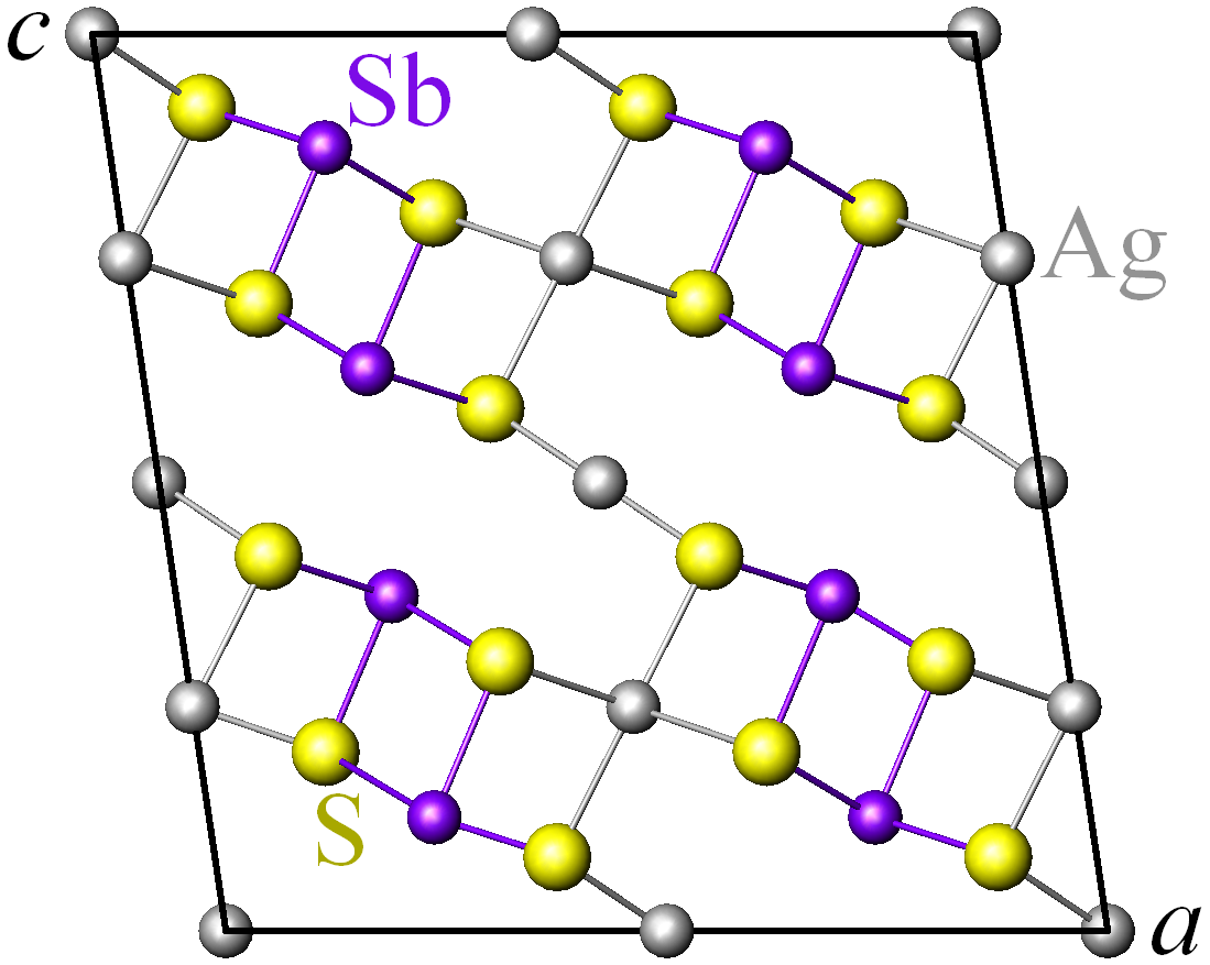 Crystal structure of miargyrite AgSbS2, space group C2/c, projected onto the (a,c) plane. Violet: antimony atoms, gray: silver atoms, yellow: sulfur atoms. Data source: Herta Effenberger, Werner Hermann Paar, Dan Topa, Alan J. Criddle and Michel Fleck (2002) "The new mineral baumstarkite and a structural reinvestigation of aramayoite and miargyrite", American Mineralogist 87(5-6): 753-764.